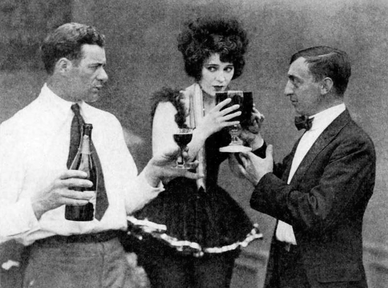 Film director Fred Hibbard, actress Edith Roberts, and an unidentified cameraman, on page 48 of the August 2, 1919 Exhibitors Herald. The caption states that they are drinking grape juice. Hibbard (under his Americanized name Fred C. Fishback) directed Roberts in two comedy short films in 1919, A Village Venus and Chasing Her Future.